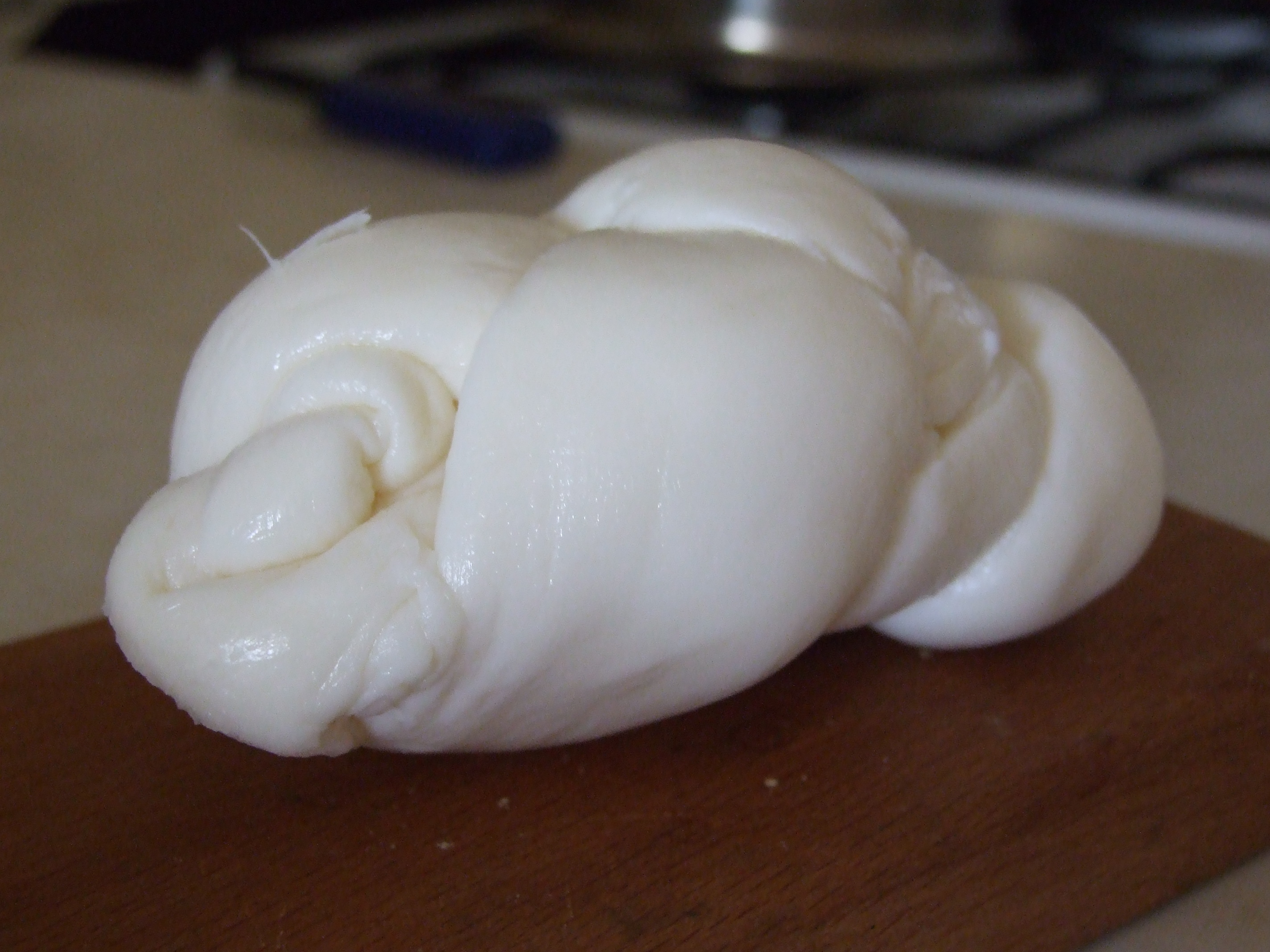 Jadel cheese